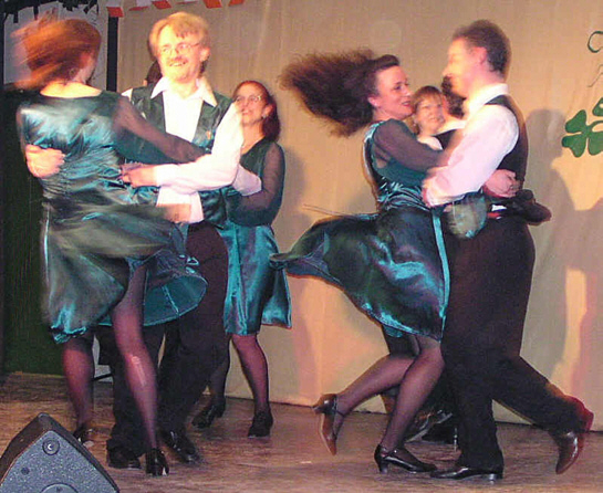 Performance of the irish "Shramore Set". Performed at the St. Patrick´s Day Céilí 2004 in Vienna by "Cumann Céilí Vín". The picture was taken by me [1]